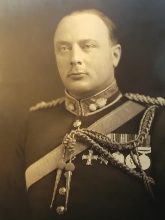 Photograph of General Clifford Thomason Beckett taken in 1937 when he was a Gold Staff officer at the Coronation of King George VI. Eleanor Grace Beckett is the grand daughter of the Subject of the photograph.